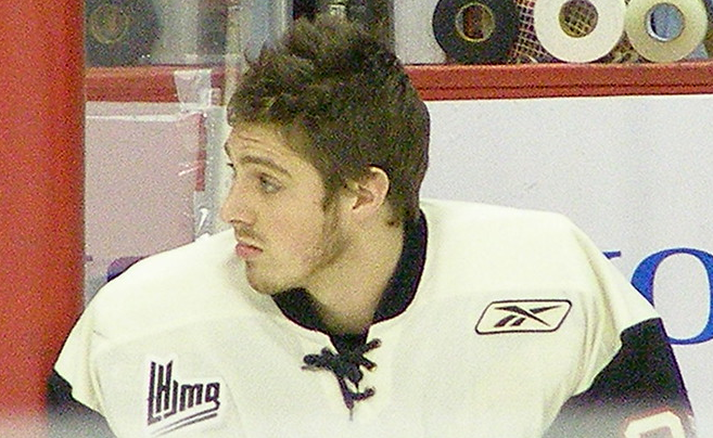 Jonathan Roy, the son of Patrick Roy and former hockey player plus current singer.